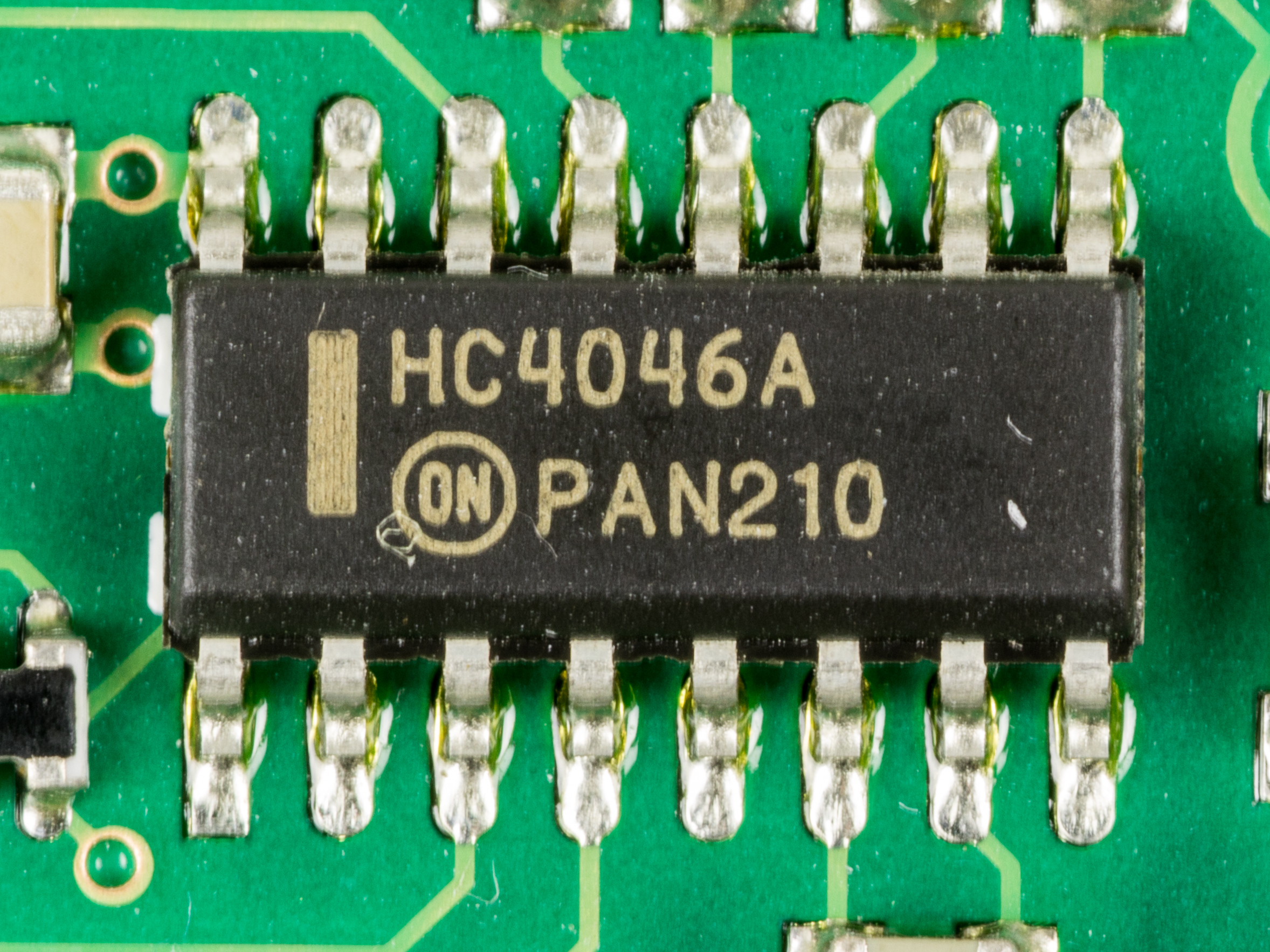 Auerswald COMander Basic - Mainboard - On Semiconductor HC4046A - Phase-Locked Loop. Package: SOIC−16